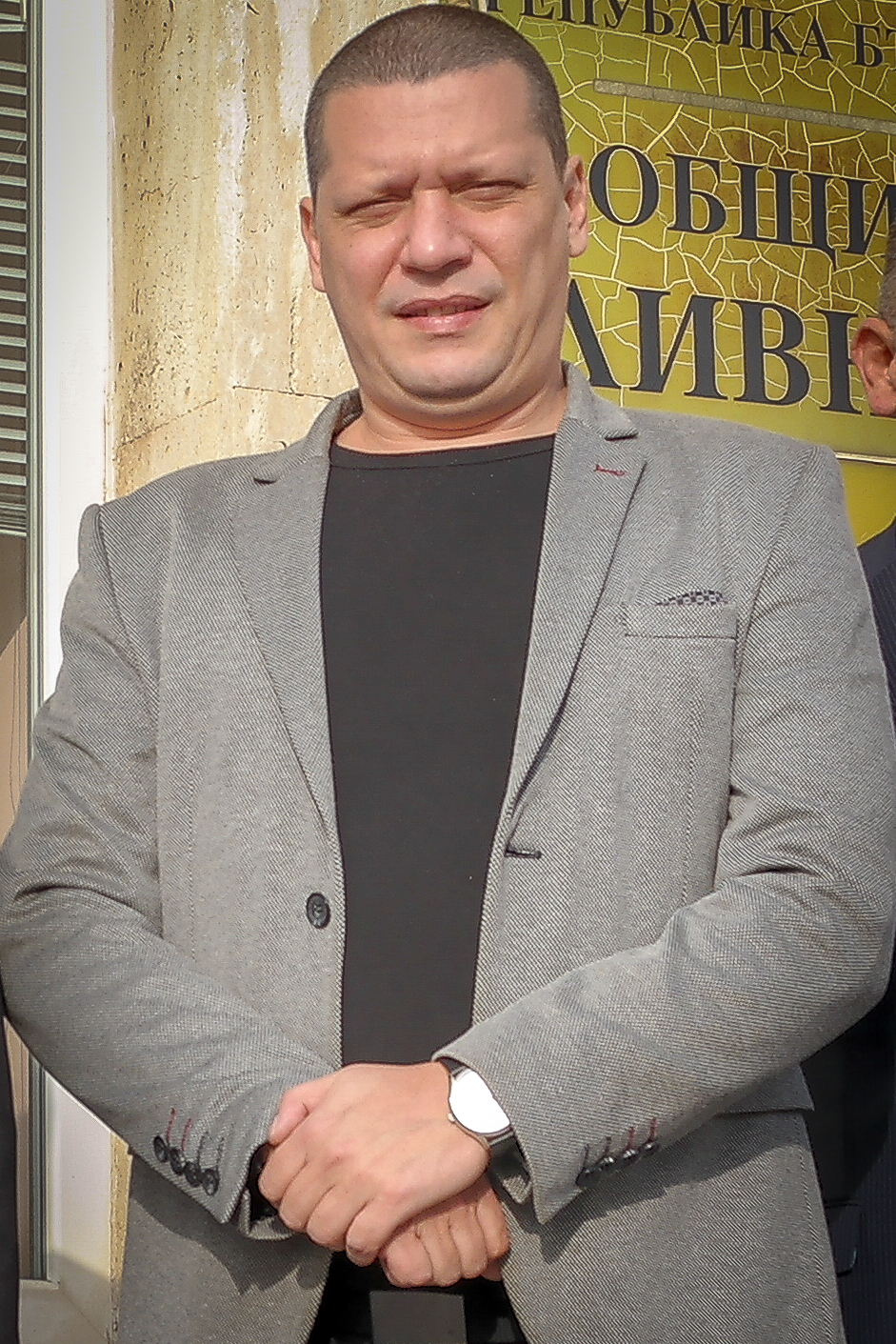 Ilian Sashov Todorov - bulgarian politic, Governor of Sofia District.